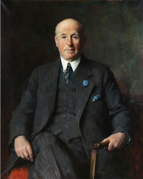 Portrait of G. A. Sadolin.